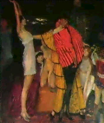 Tale of the doomed prince